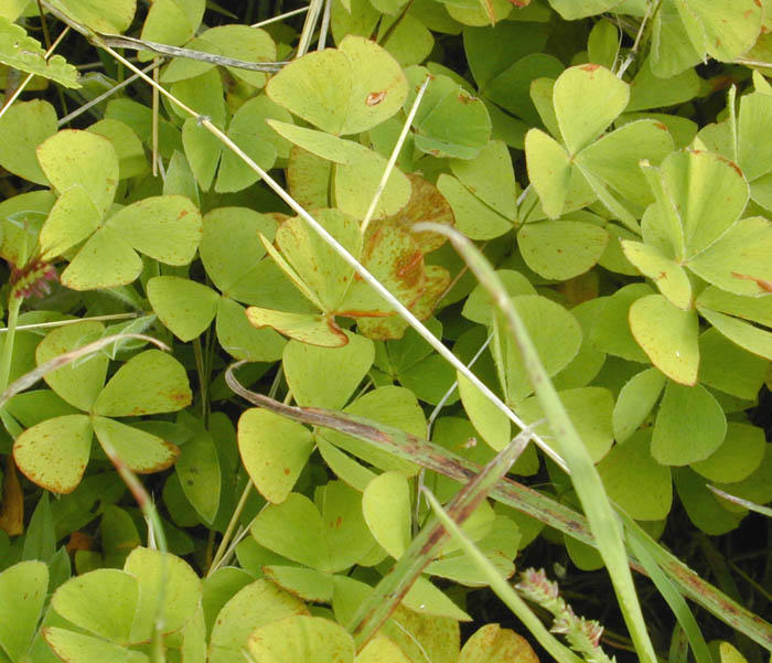 Close up of the endemic Hawaiian fern, Marsilea villosa photographed at Lualualei on leeward O'ahu by Eric Guinther (Marshman).